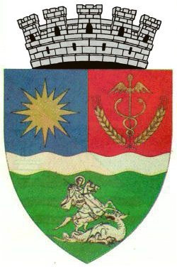 Coat of arms of Băilești, Dolj County, Romania.